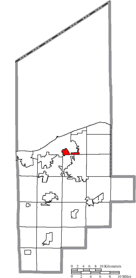 Map of the municipal and township boundaries of Lorain County, Ohio, United States, as of the 2000 census, with the location of Sheffield Township highlighted. Township borders are shown only in unincorporated areas in order to differentiate incorporated and unincorporated areas more clearly.